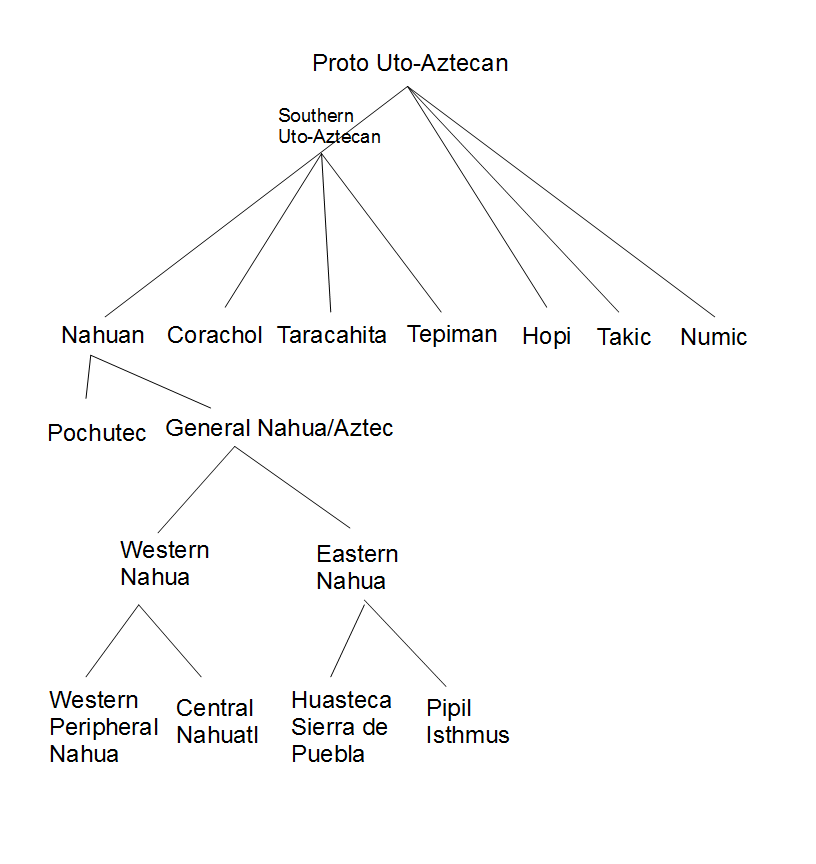 This is a tree of the place of the Nahuan branch within the Uto-Aztecan family tree. The classification of Nahuan is based on Kaufman 2001. The classification of UA is based on recent evidence for the validity of the grouping of SUA (Merrill 2013) but does not take into account some of the mergings of other groups.